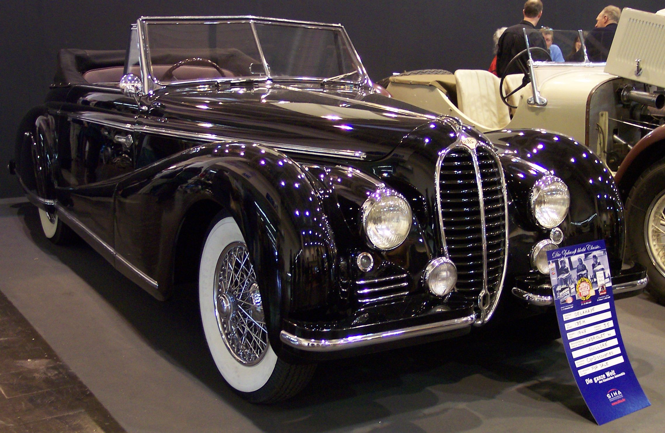 Delahaye 135M 1947, coachwork by Guilloré